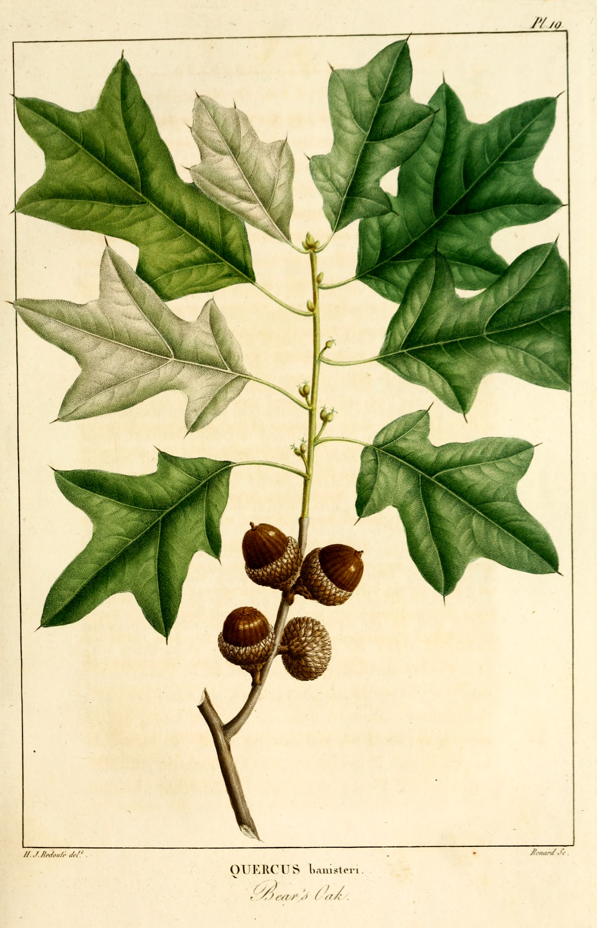 Plate from Histoire des arbres forestiers de l'Amérique septentrionale: Quercus ilicifolia - bear oak.Original caption: Quercus banisteri. Bear's Oak.